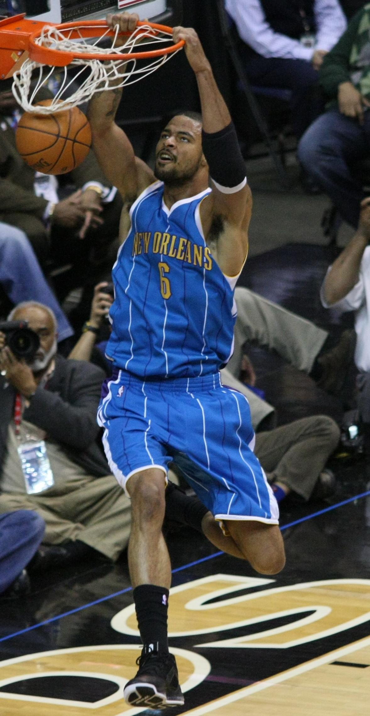 A cropped version of File:Tyson Chandler.jpg depicting basketball player Tyson Chandler.